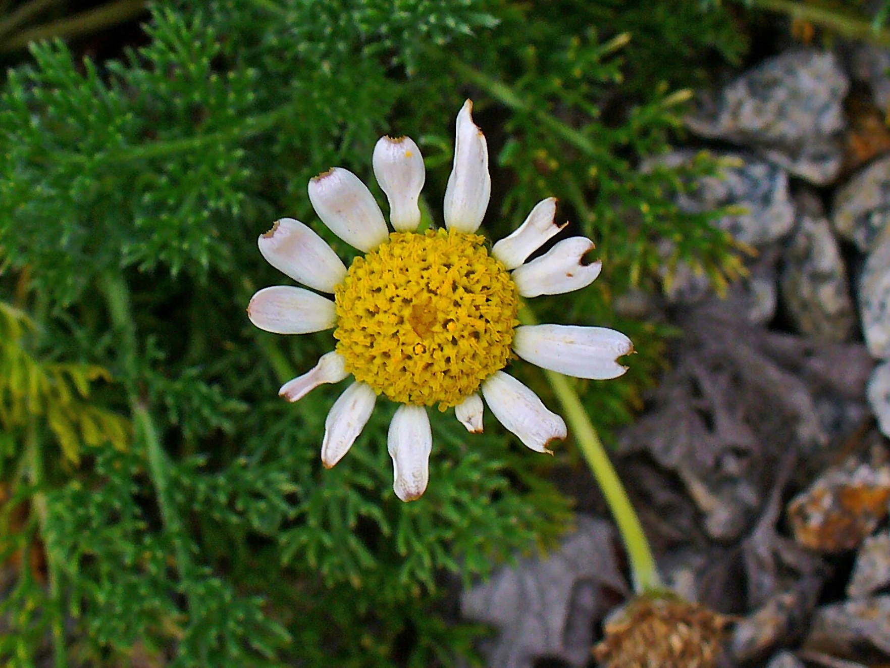 Anthemis arvensis, Asteraceae, Corn Chamomile, Mayweed, Scentless Chamomile, inflorescence; Karlsruhe, Germany.